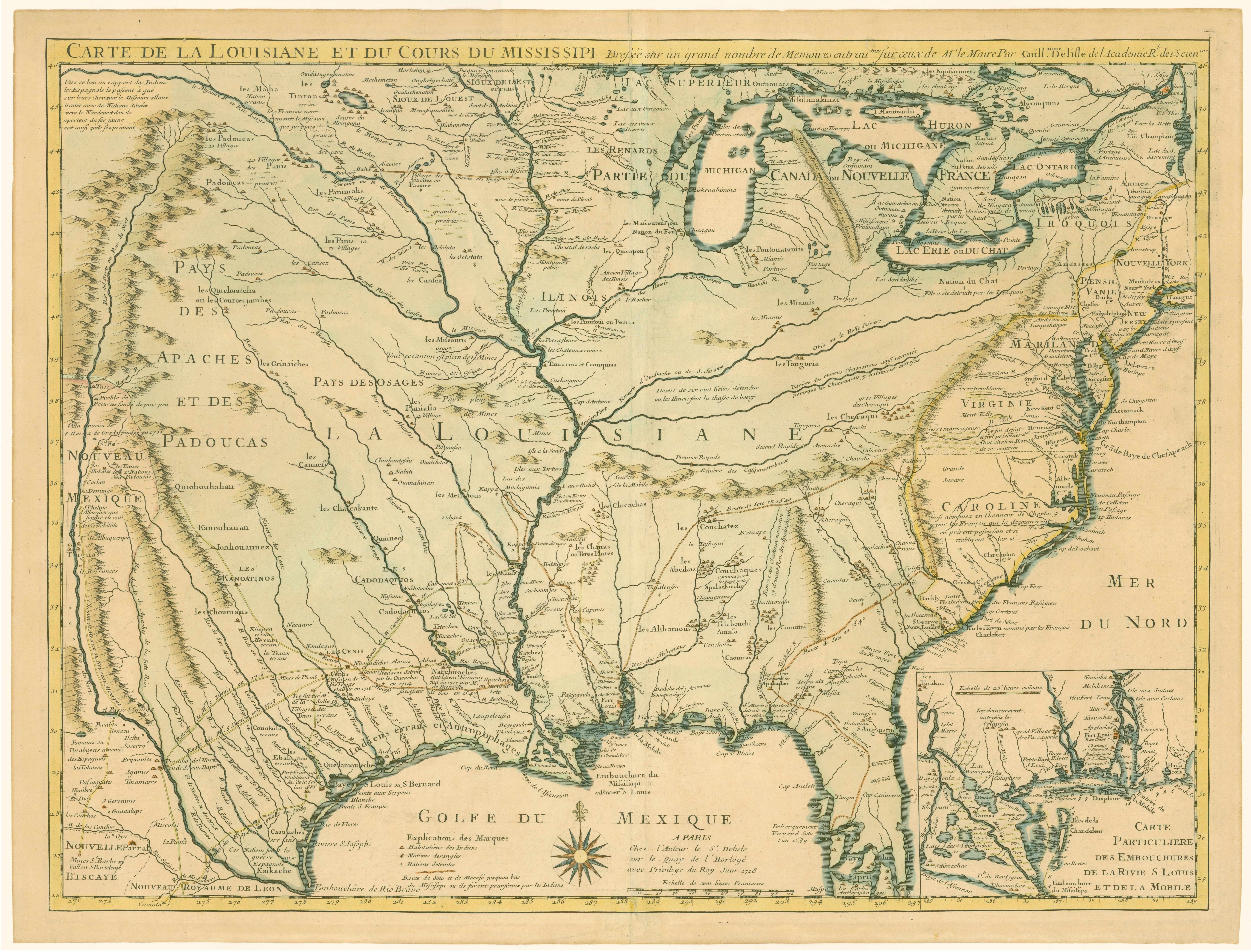 The first detailed map of the Gulf region and the Mississippi, and the first printed map to show Texas. Delisle’s 1718 map of Louisiana is one of the great milestones in the cartographic history of North America in general and in Texas cartography in particular. The most important notation to Texas history, however, was that appearing along the Trinity: ‘Mission de los Teijas, etablie in 1716.’ Referring to the earliest of the Spanish missions in East Texas, this phrase marked the first appearance of a form of the name Texas on a printed map and thus Delisle has received proper credit for establishing Texas as a geographic place name.